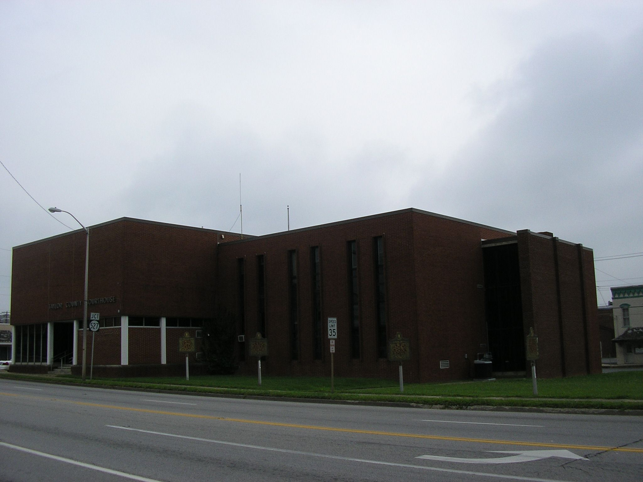 Taylor County Courthouse